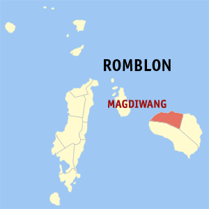 Map of Romblon showing the location of Magdiwang